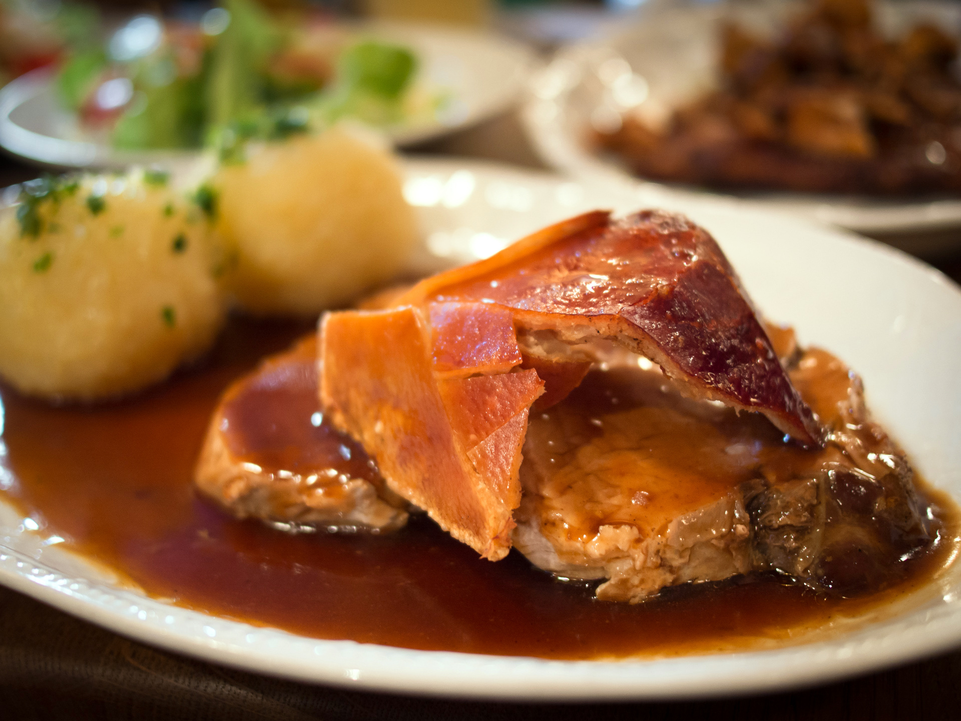 Bavarian Krustenbraten mit Dunkelbiersoße is oven-baked pork served with a dark beer sauce. The (extremely) crispy pork skin is often served separated from the meat as here in the image. It is often eaten with potato dumplings and with a salad on the side.